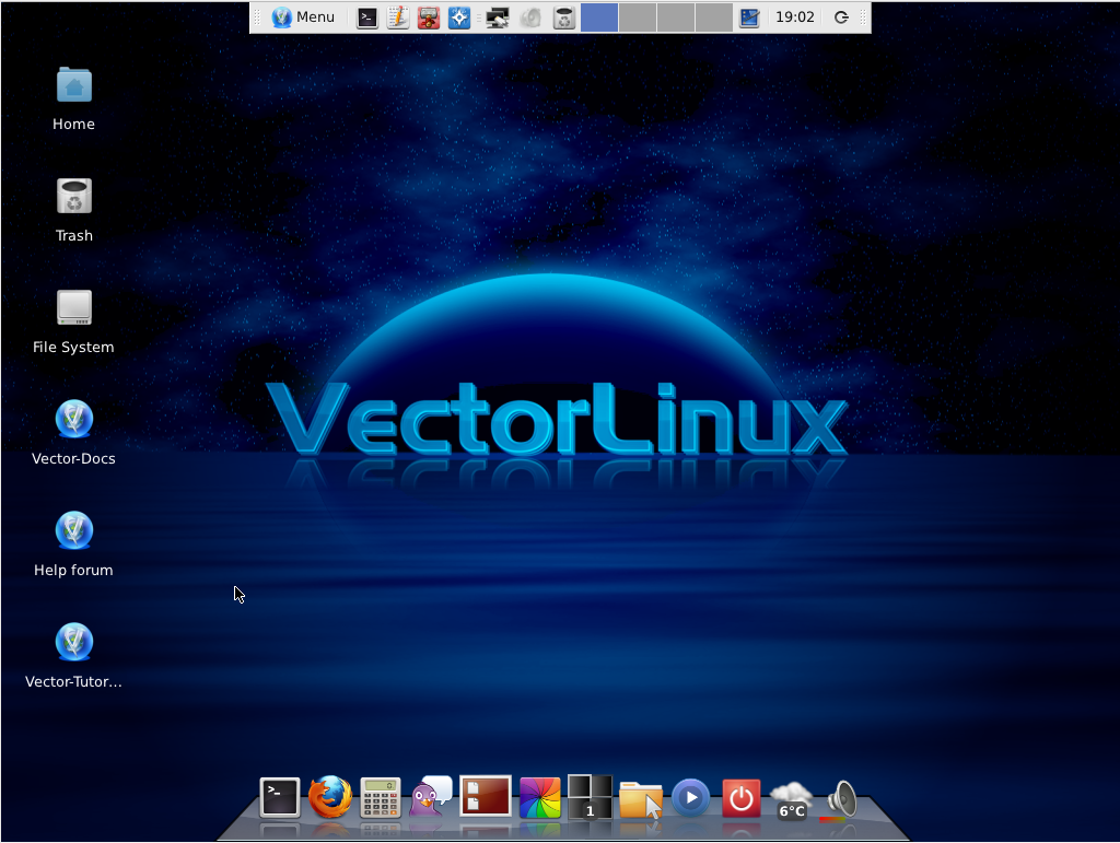 VectorLinux 7 Screenshot